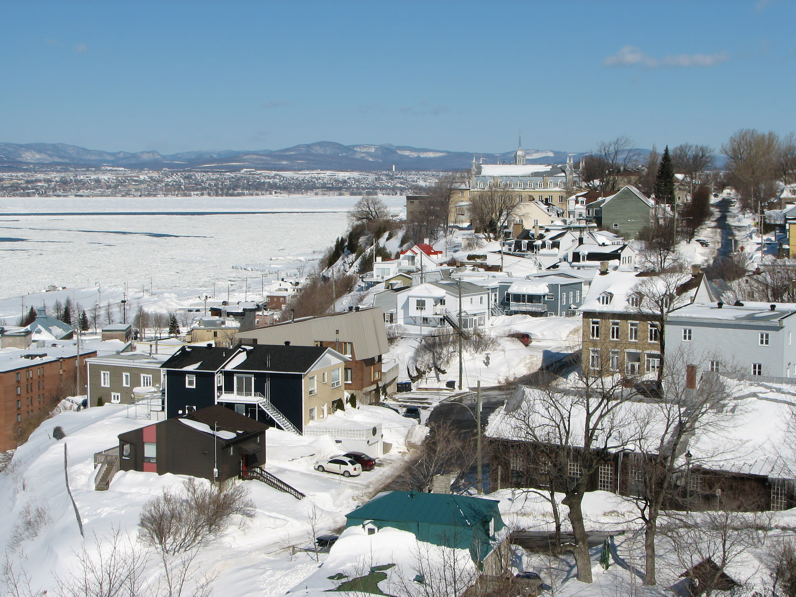 City of Lévis on Saint Lawrence River, province of Quebec, Canada